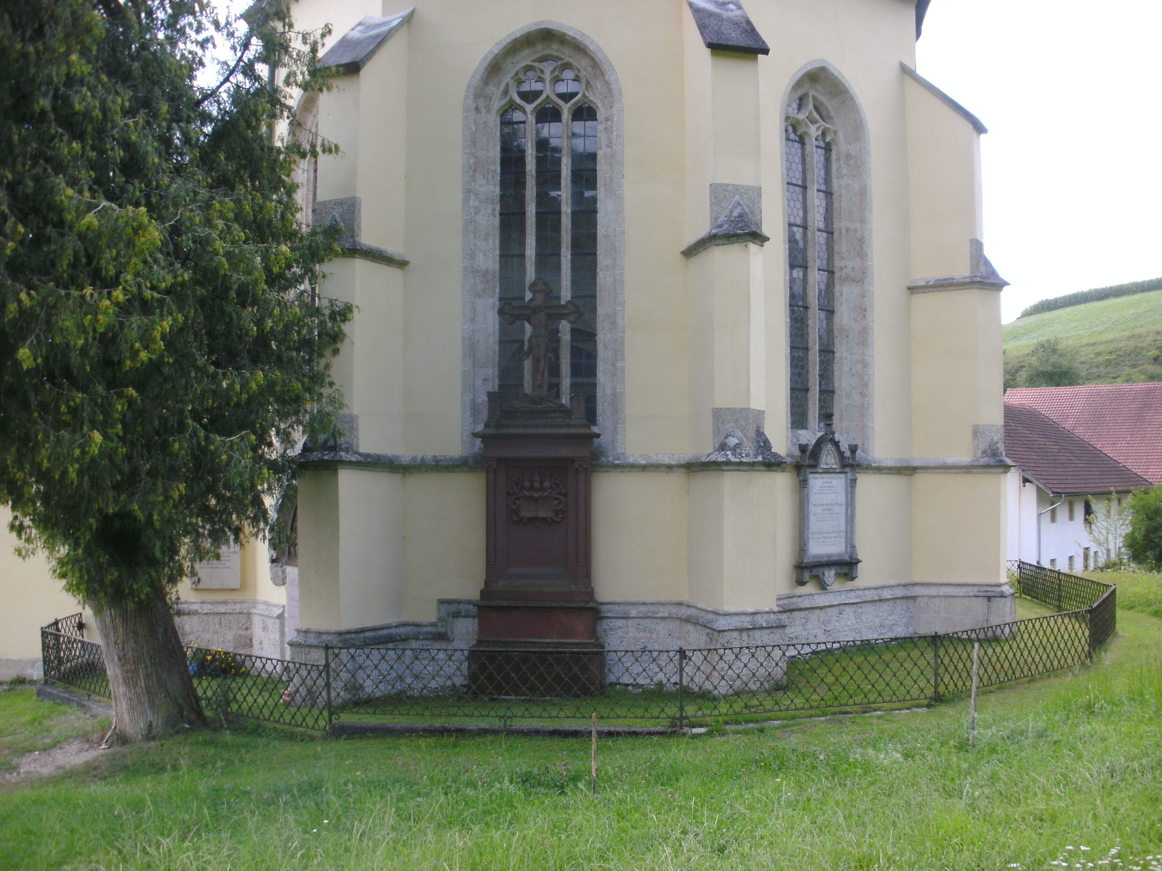 Funerary monument of former owners of Ering palace at the church of St Anna near Ering, Bavaria